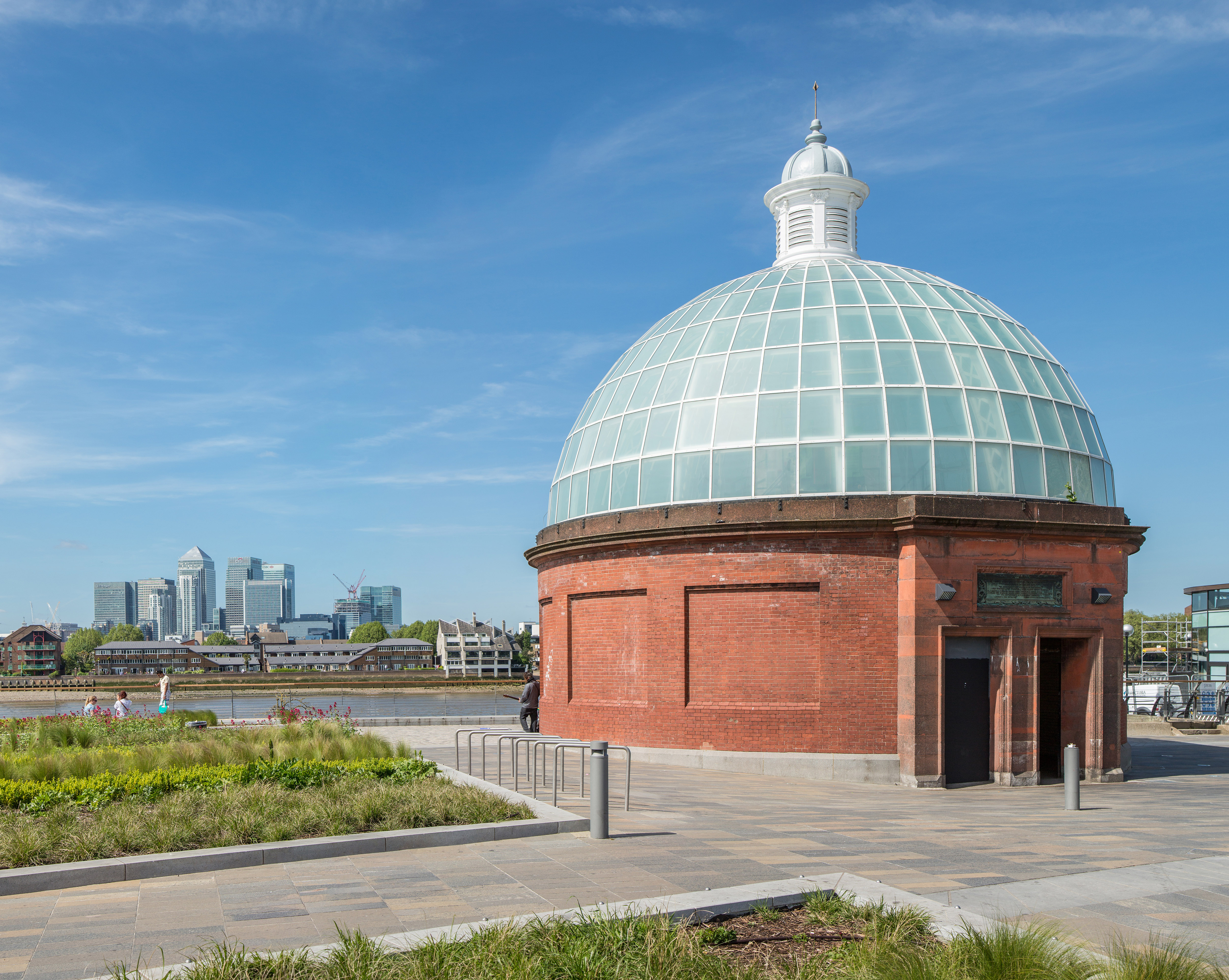 Greenwich Tunnel entrance on the Greenwich side, facing north towards Canary Wharf.